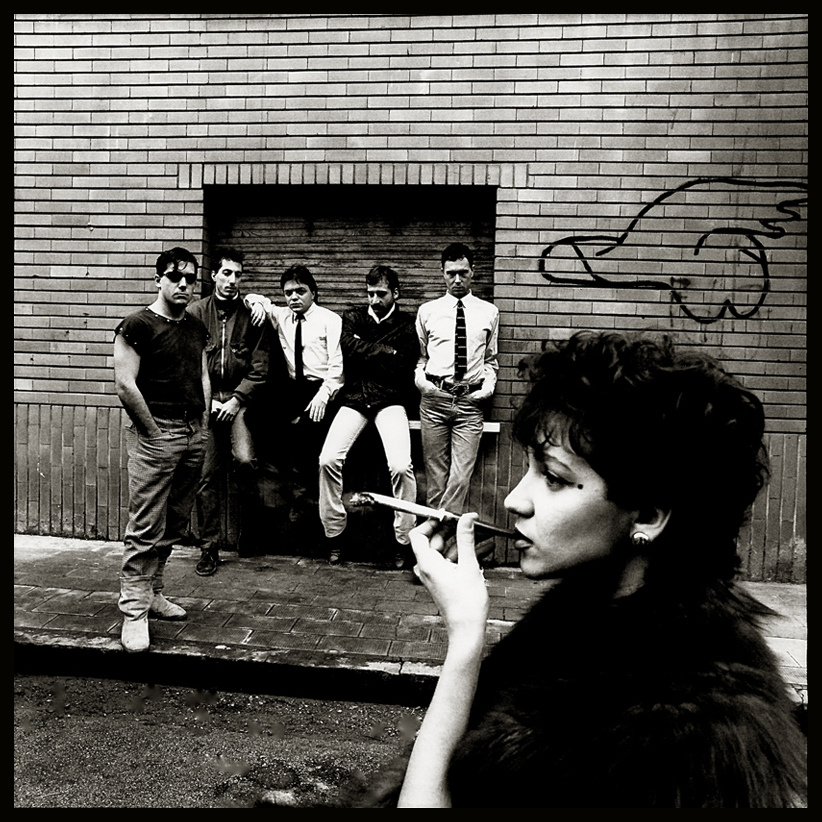 Ensembles - Walhalla in Black and White